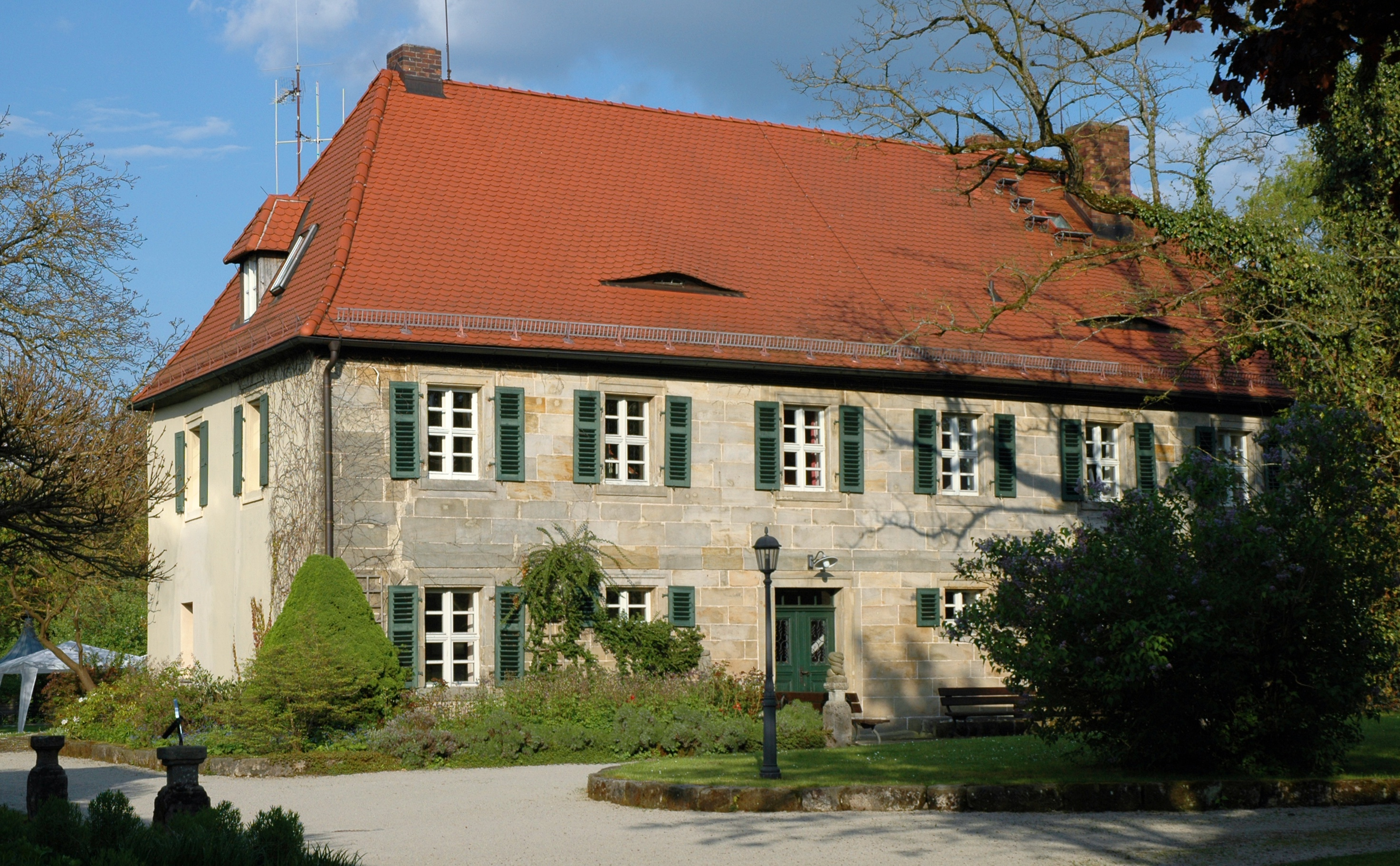 forester's house Oberwaiz (community Eckersdorf), former hunting seat from Plassenberger, now used by evang.-reform. church, built 1776